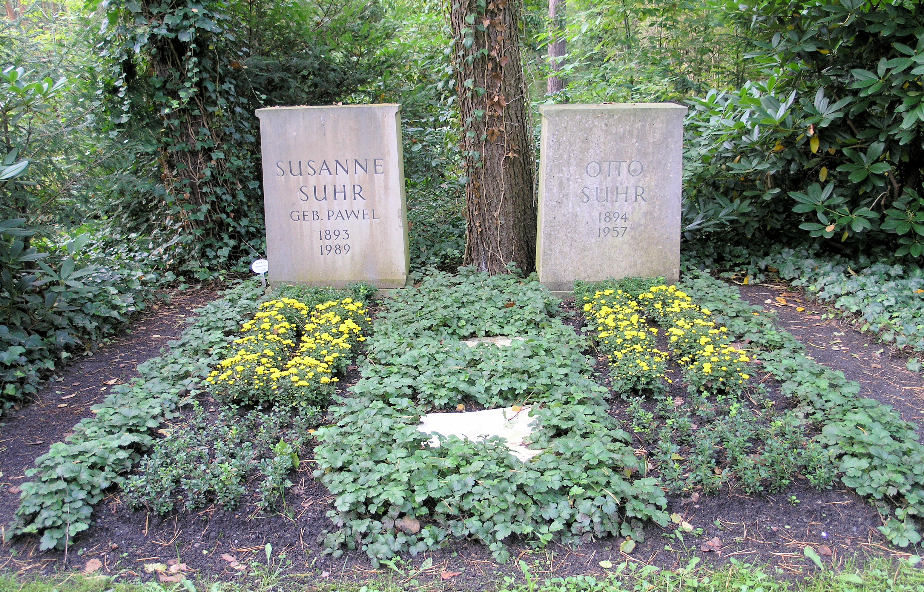 "Ehrengrab" (grave of honor), Otto Suhr, Potsdamer Chaussee 75, Berlin-Nikolassee, Germany Koordinate:52°25′23″N 13°12′38″E / 52.42306°N 13.21056°E